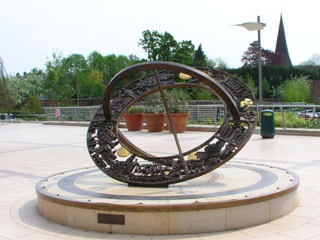 Heritage Sundial in The Forum, Horsham, West Sussex. Its circumference has more than 30 scenes in cast bronze, illustrating the district's history. The spire of St Mary's parish church is in the right of the picture.